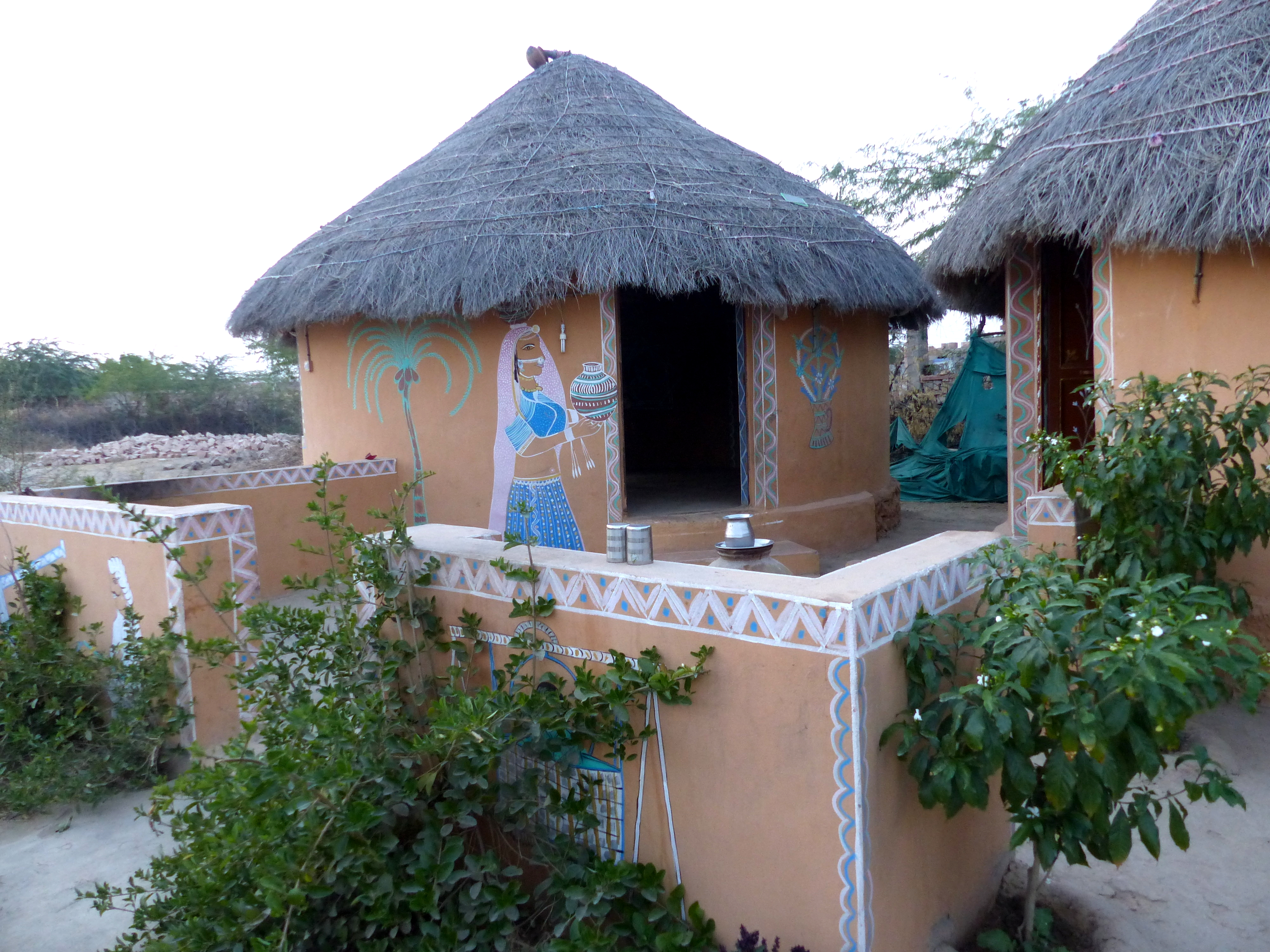 Jodhpur ( Rajastan ). Bishnoi village: Hut..